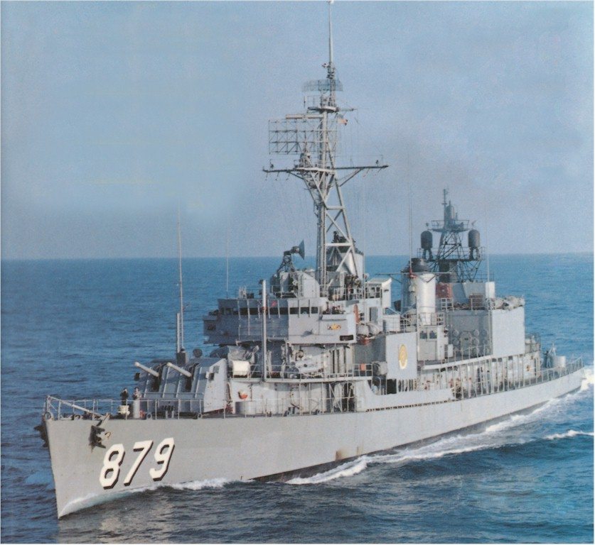 The U.S. Navy destroyer USS Leary (DD-879) underway at sea, circa in 1972.